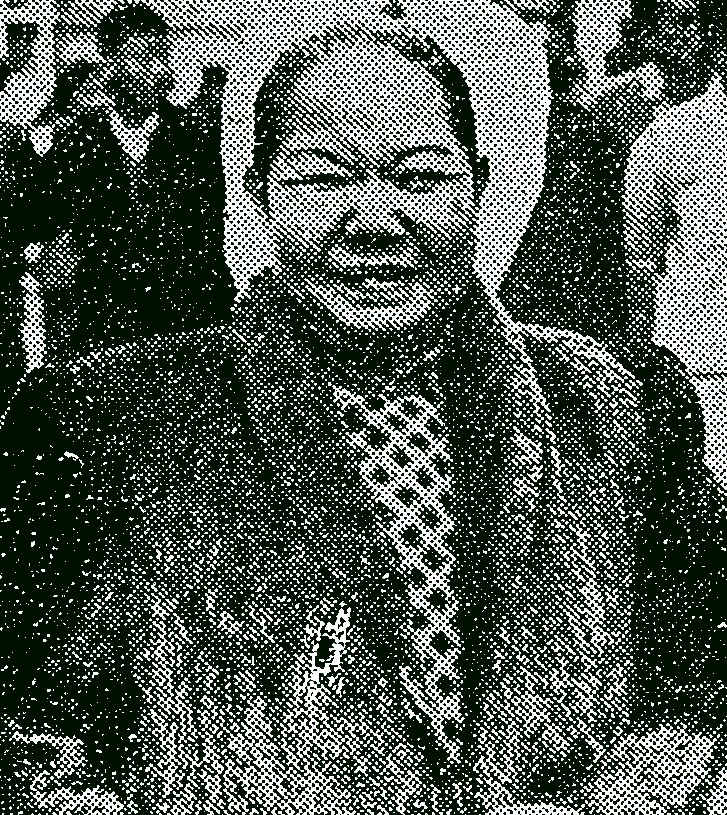 Ms. To San Ku (December, 1954), a Cantonese Opera actress and a Hong Kongese-Cantonese movie actress. 中文（香港）: 陶三姑小姐(1954年12月)，粵劇艷旦、香港粵語電影女演員。